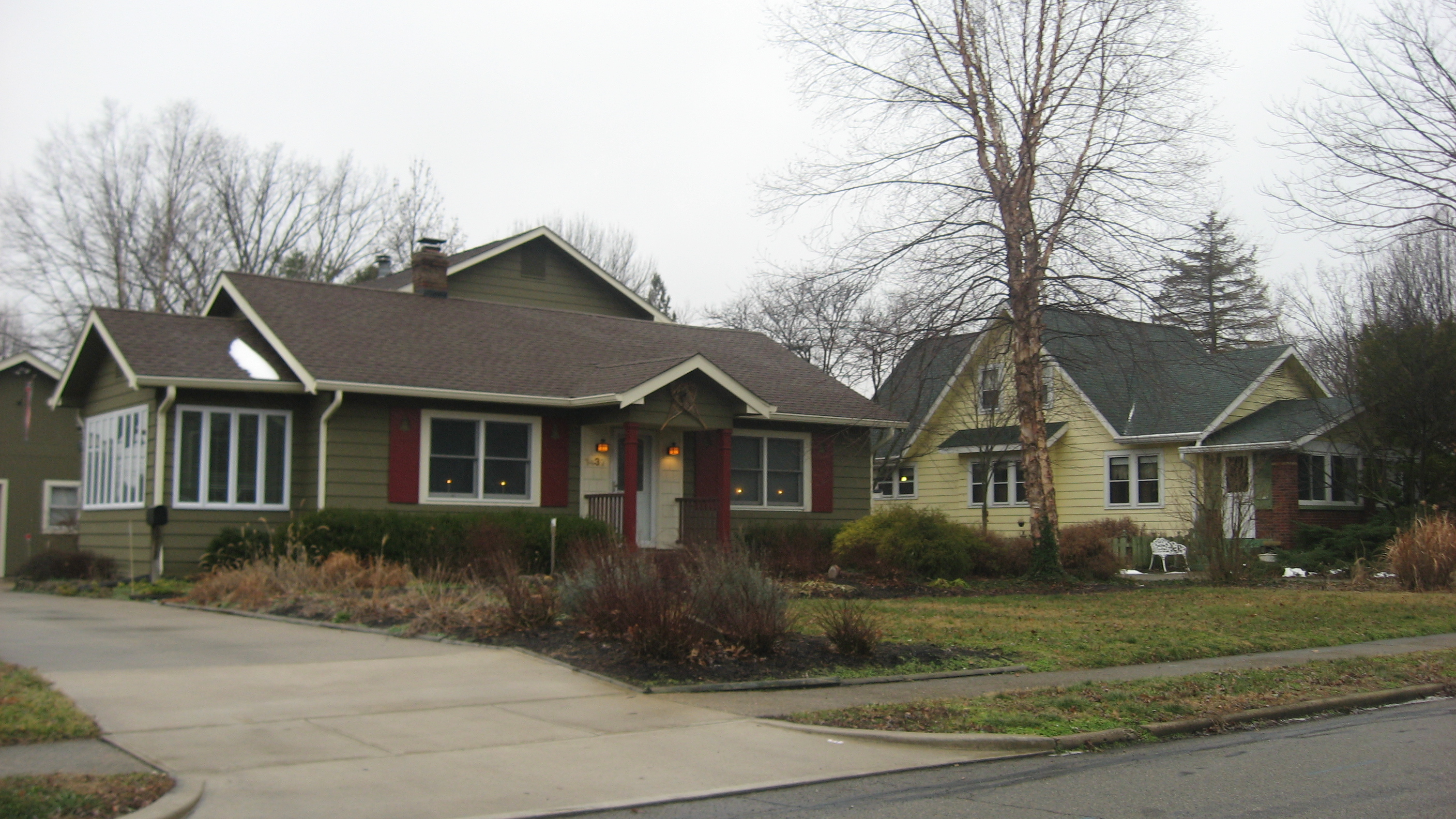 Houses at 1437 (left) and 1435 (right) Maynard Drive in the Homecroft portion of Indianapolis, Indiana, United States. These houses are part of the Homecroft Historic District, a historic district that is listed on the National Register of Historic Places.